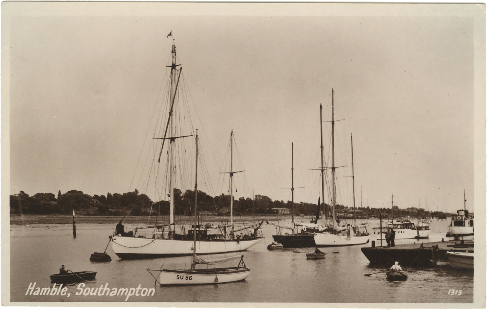 postcard of Luke moorings, Hamble